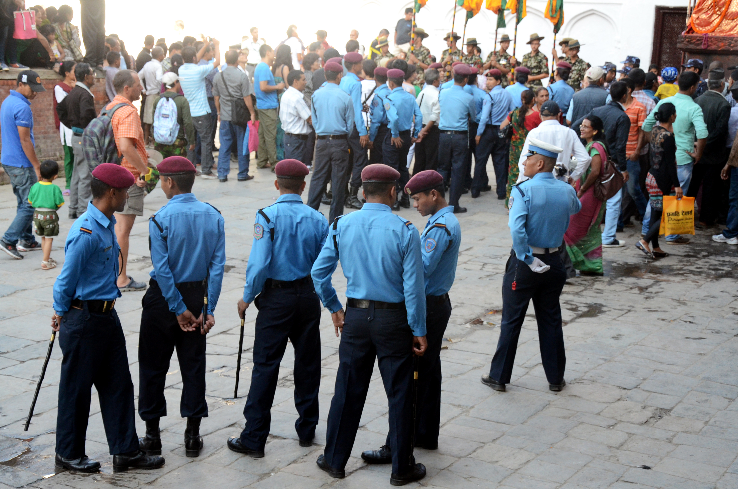 Nepal police on duty at Fulpati 2013 at Kathmandu Durbar Square at Kathmandu